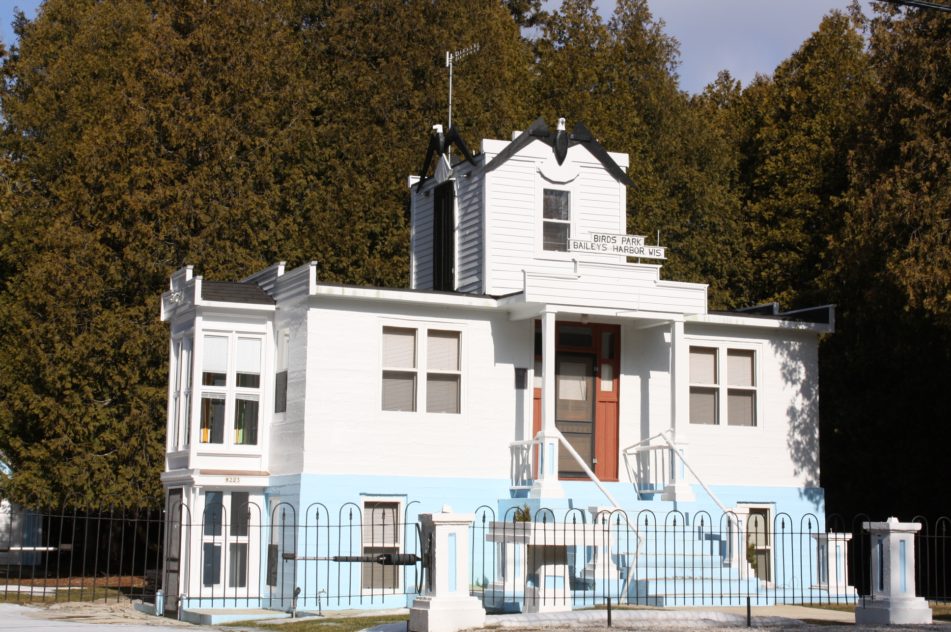 The Albert Zahn House in Door County, Wisconsin, listed on the National Register of Historic Places.